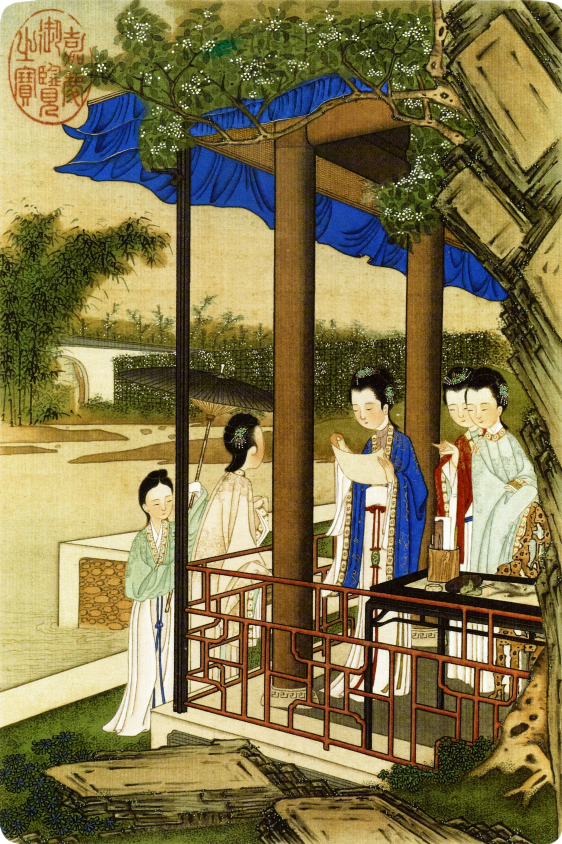 Leaf 2 from the painter's album entitled "Paintings of Ladies" (畫仕女圖). Ink and color on silk. Width 20.4 cm, Height 30.9 cm. Located in National Palace Museum, Taipei.